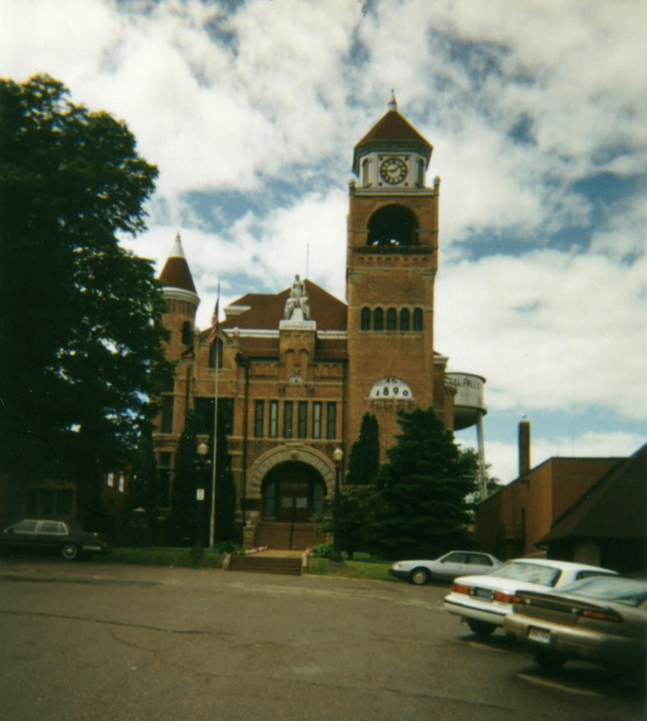 Iron County Courthouse — Crystal Falls, Michigan.